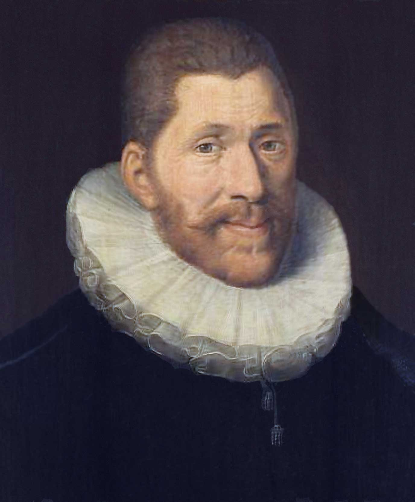 Johannes Heurnius (auch Johann van Heurne, Jan van Hornes; (1543-1601) Dutch physician